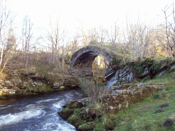 Stone arched bridge over the River Livet at Bridgend of Livet, Moray